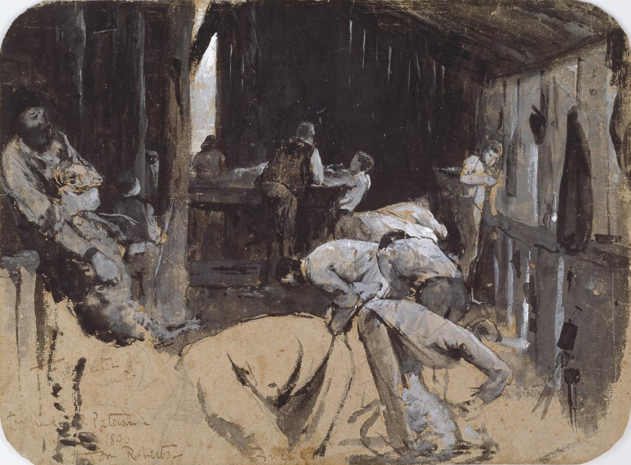 First sketch for Shearing the rams (1888, gouache and pencil on brown paper on cardboard, 22.0 × 29.9 cm. The painting is in the collection of the National Gallery of Victoria.